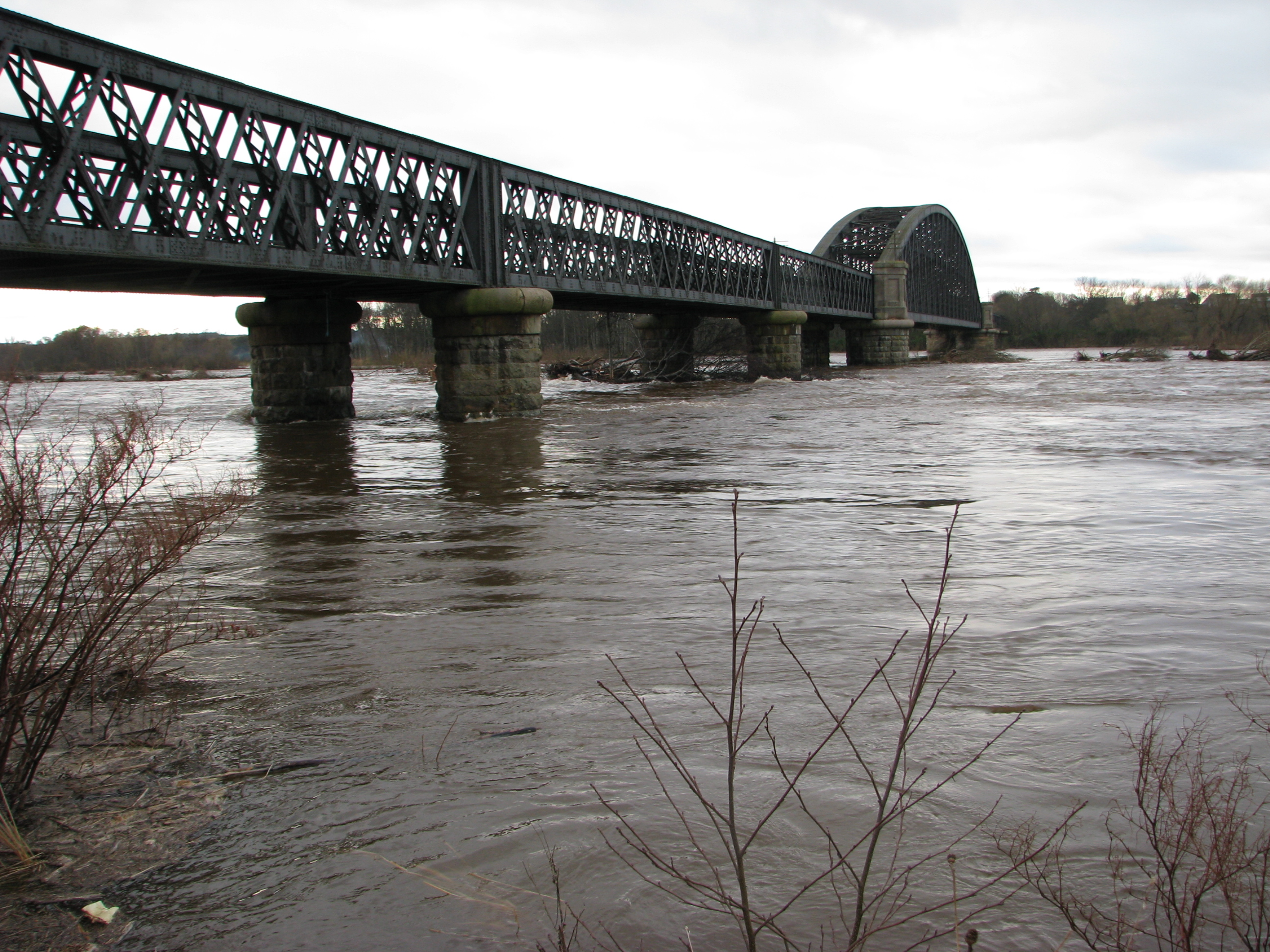 The Spey in spate at the old rail bridge near Garmouth